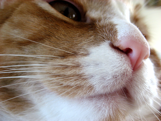 My cat, Georgie's, nose. Sometimes referred to as 'Preppy Parts'.